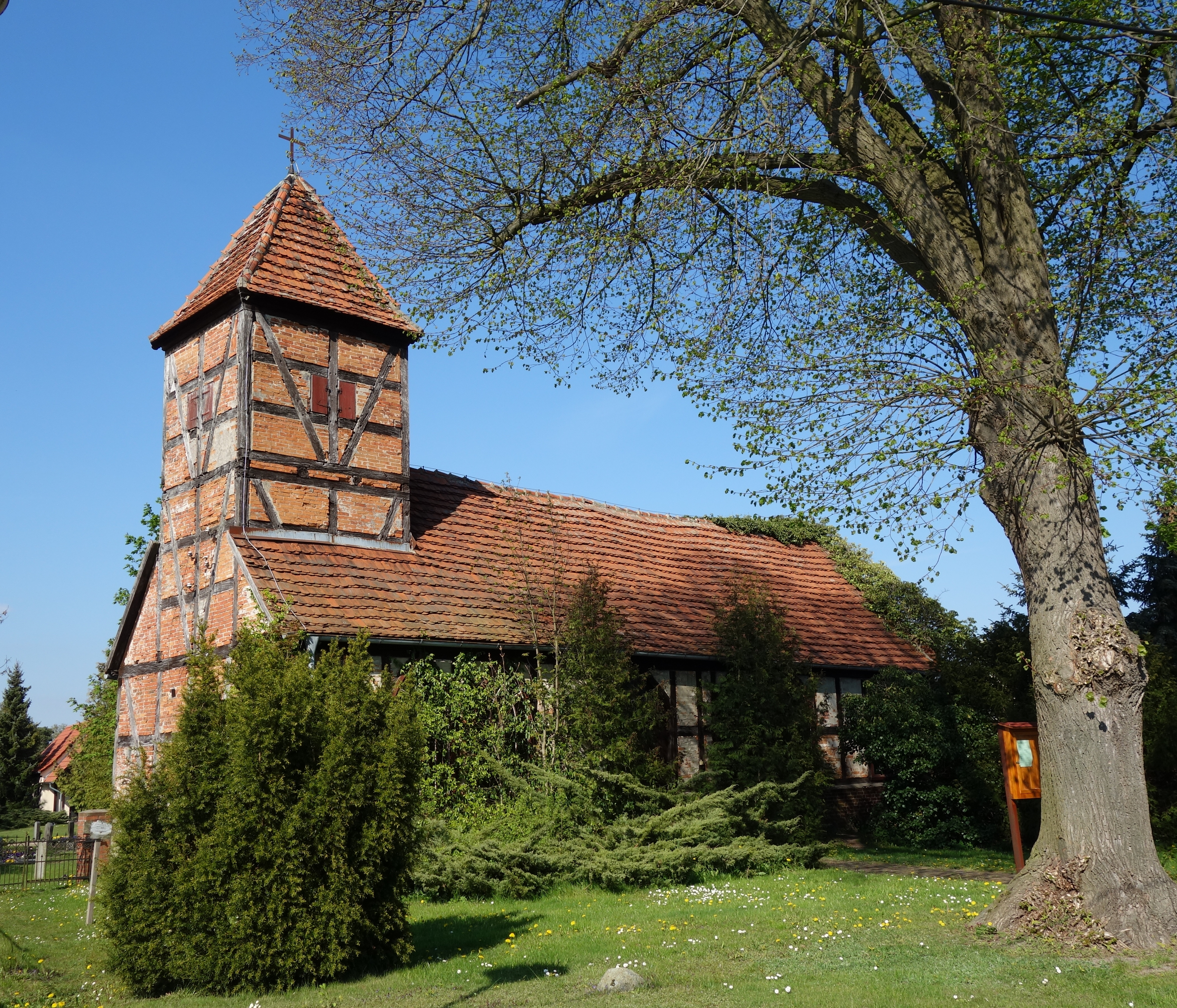 South-south-western view of church in Witzke, Seeblick municipality, Havelland district, Brandenburg state, Germany.